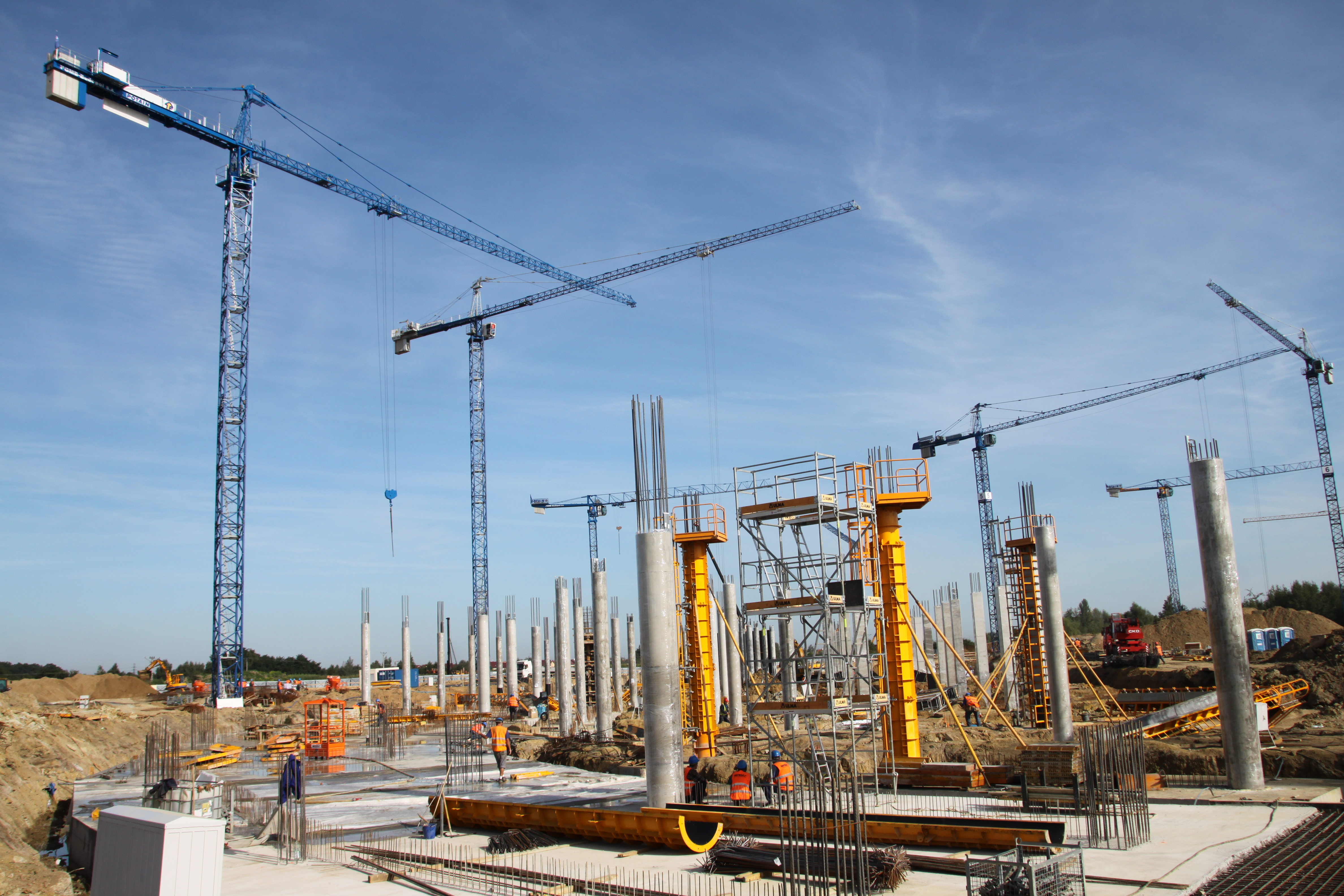 Construction site of the Stadium in Maślice in Wrocław